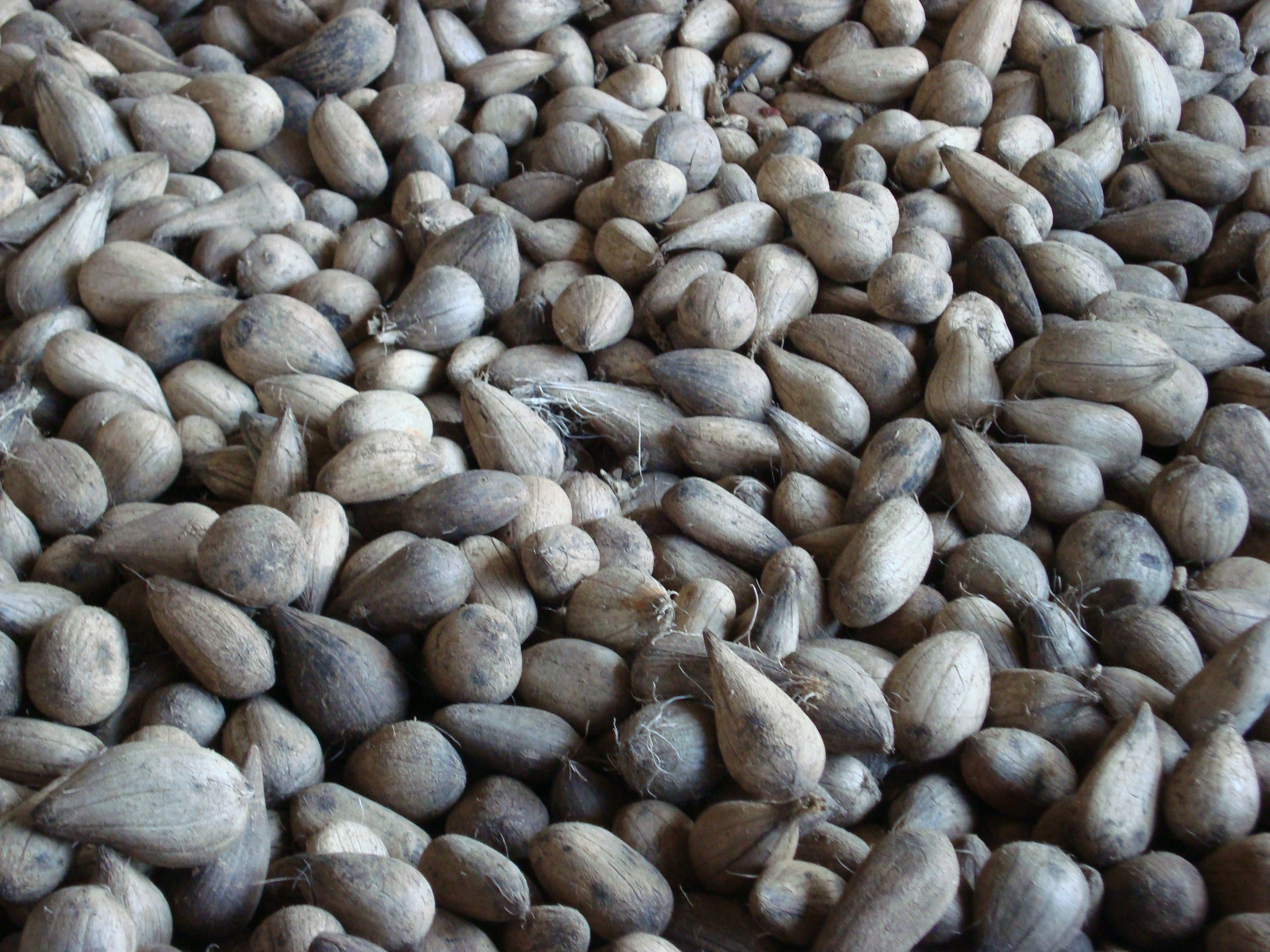 Murumuru seeds